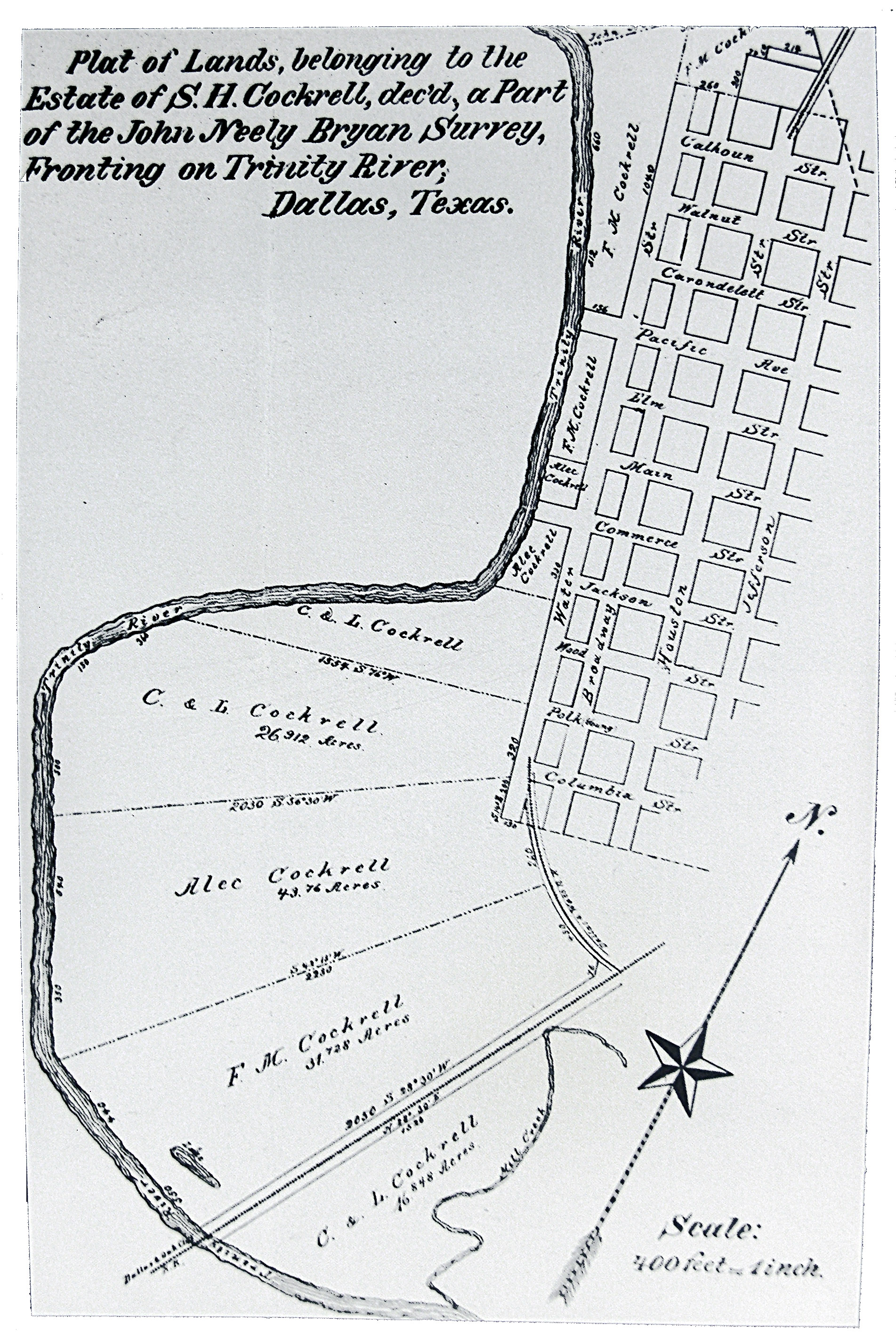 A map showing the holdings of the Cockrell estate c. 1871 in Dallas, Texas (USA). this map dates to a later time peroid, maybe, because there is a thing about railroads, which did not come to dallas until the 1870s mid, and i see a railroad line here....